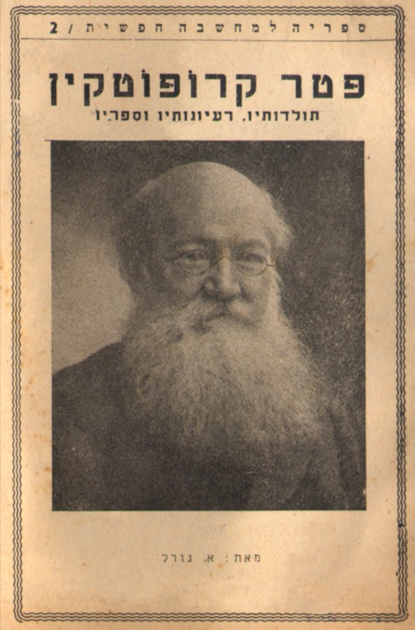 Cover of the E. Hirschauge's (pseud. A Góral) pamphlet about Kropotkin.